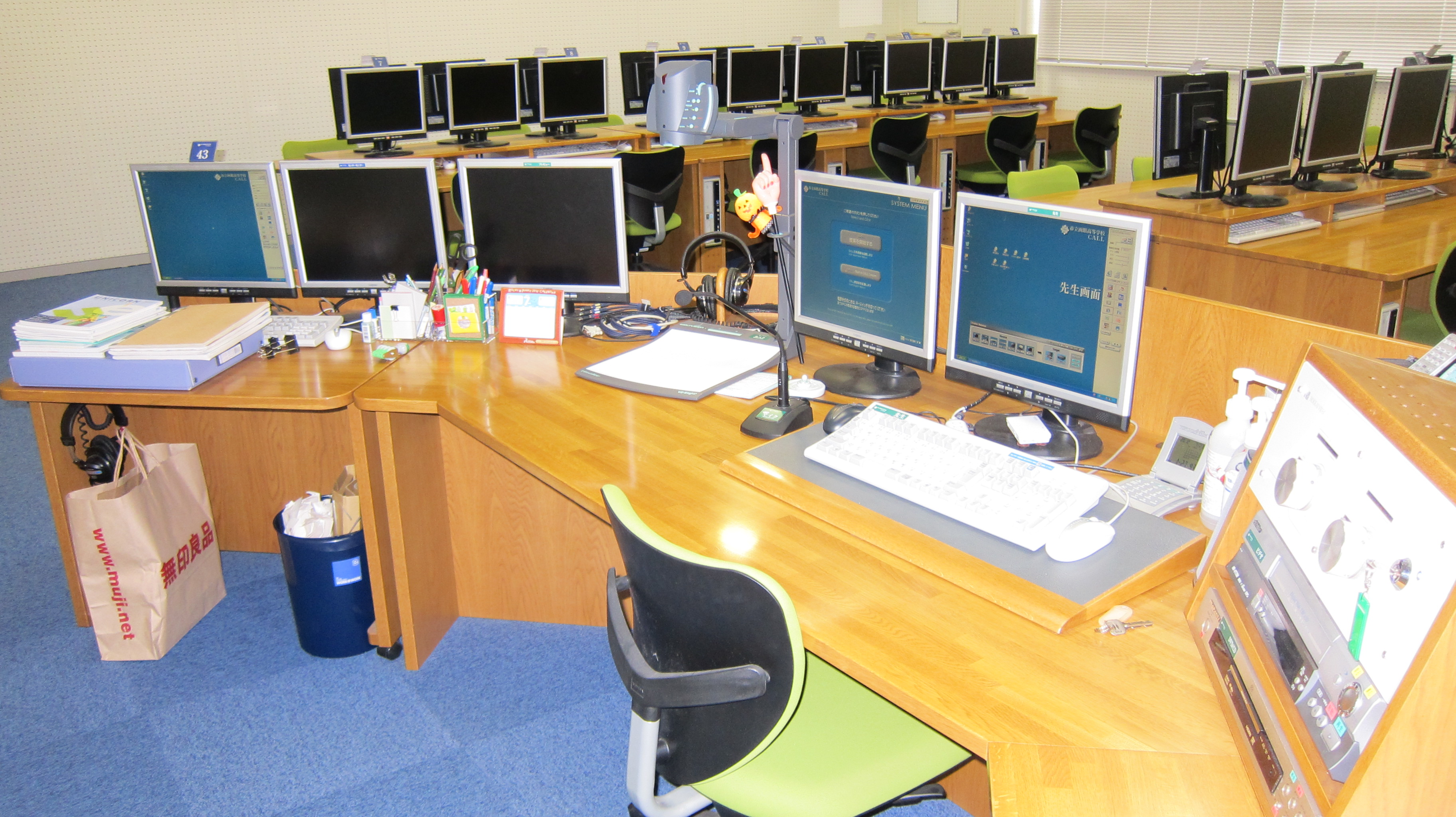 Japanese High school Language Lab Teachers console